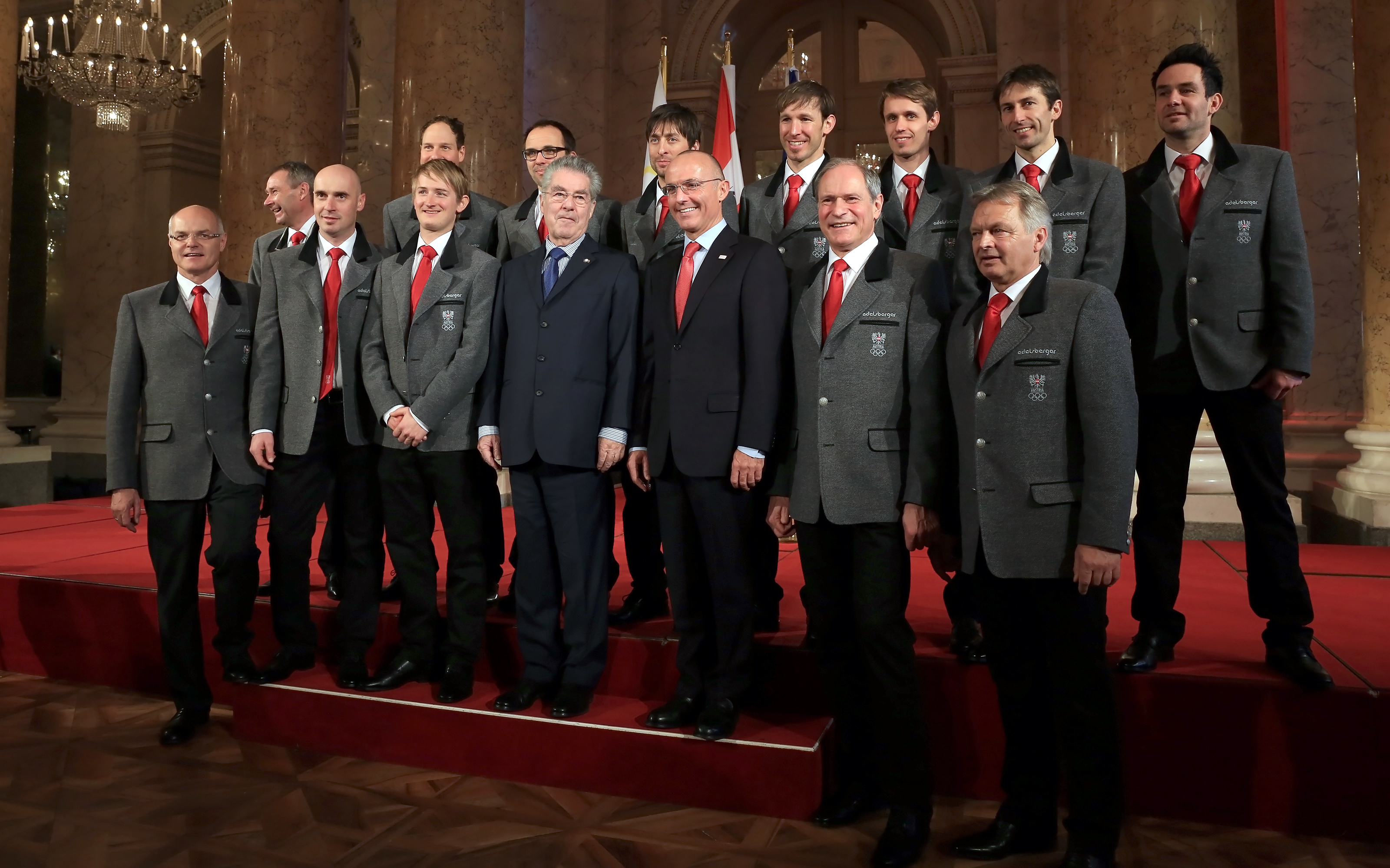 Athletes of the Austrian team for the 2014 Winter Olympics - Nordic combined: Christoph Bieler, Wilhelm Denifl, Bernhard Gruber, Lukas Klapfer, Mario Stecher and support team with Federal President Heinz Fischer, Federal Minister Gerald Klug and ÖOC officials Karl Stoss and Peter Mennel; group picture taken at Hofburg Palace in Vienna, Austria.